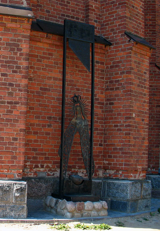 Assumption of the Blessed Virgin Mary Church in Miory. Memorial to abortus fetus